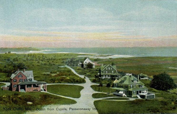 View of the ocean from cupola of The Passaconaway Inn (1893-1930s), York Cliffs, Maine